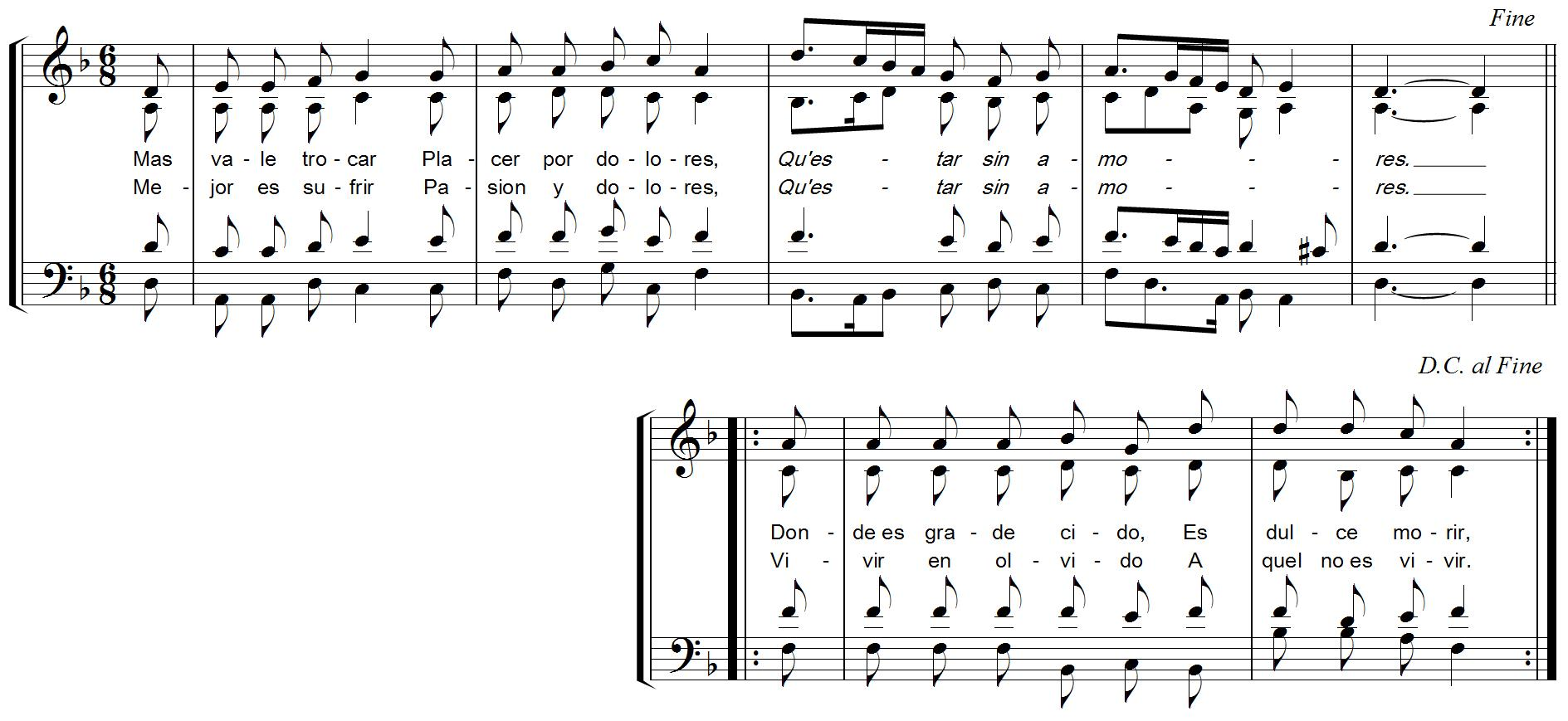 Juan del Encina. Villancico "Mas vale trocar" (fragment). Transcription in modern notation